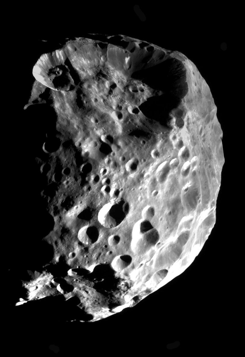 Phoebe, as imaged by the Cassini probe.